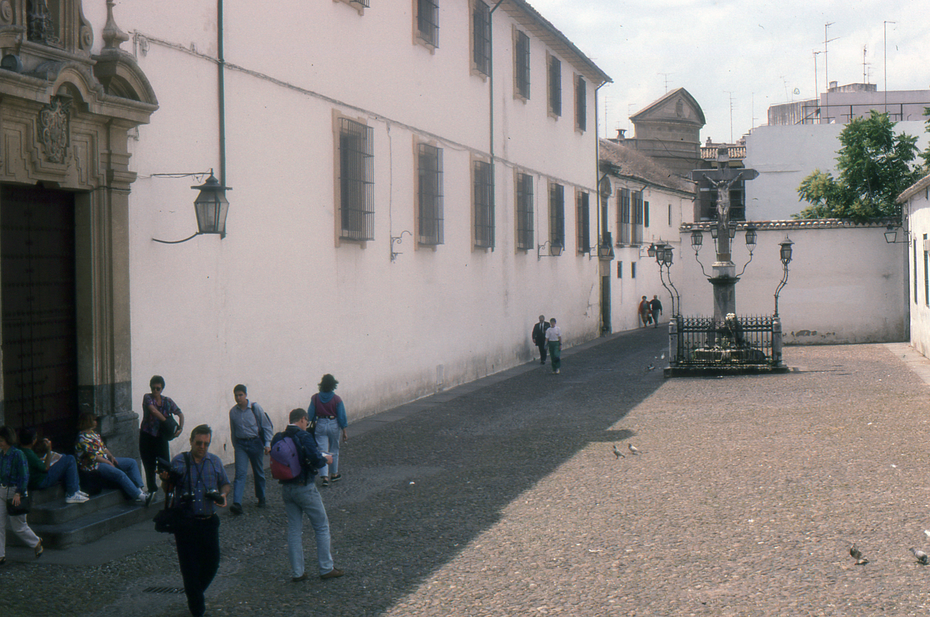 Christ to the streetlights - Square of the Pains.